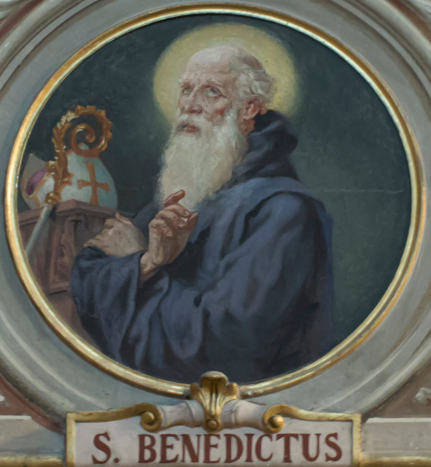 Saint Benedict bishop of Milan Part of the series of tondos of the bishops of Milan painted in the Basilica di San Nicolò (Lecco, Italy) by Casimiro Radice (1834 -1908) and Giovanni Valtorta (1811-1882)